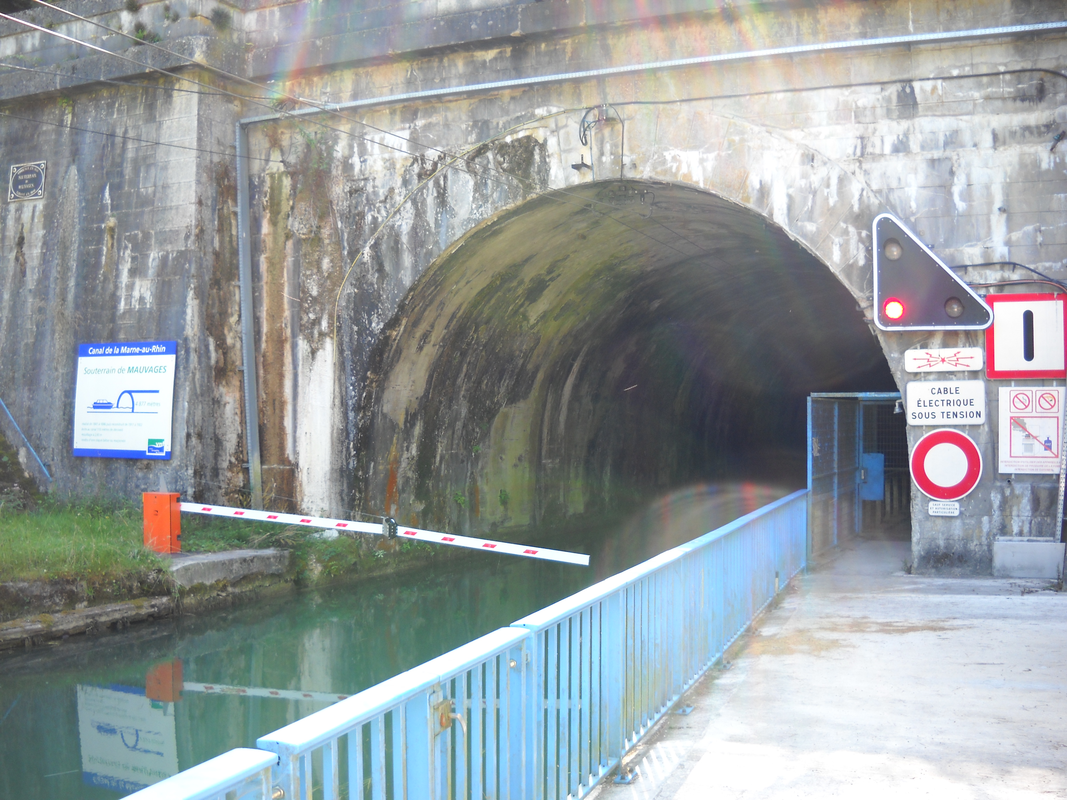 Tunnel of Mauvages